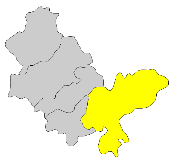 Location of Huidong County, Huizhou